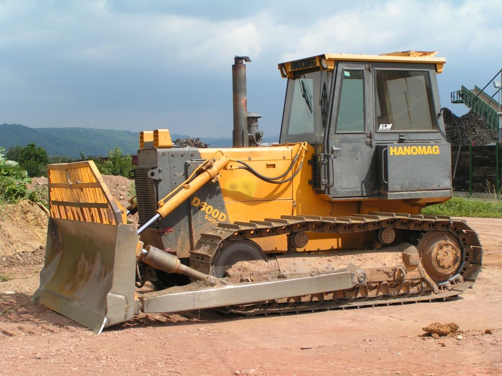 Bulldozer, Hanomag D600D super, Trier, Germany